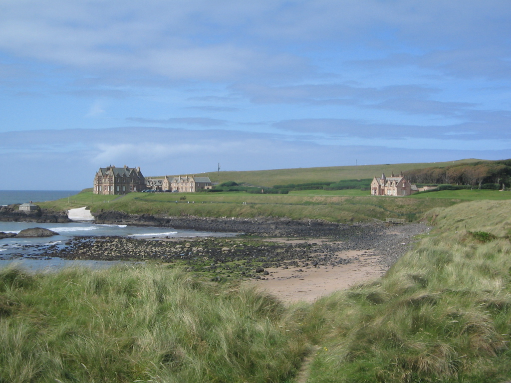 Runkerry House, Portballintrae, as it appeared in 2005. This photograph is taken from the sand dunes of Runkerry Strand.